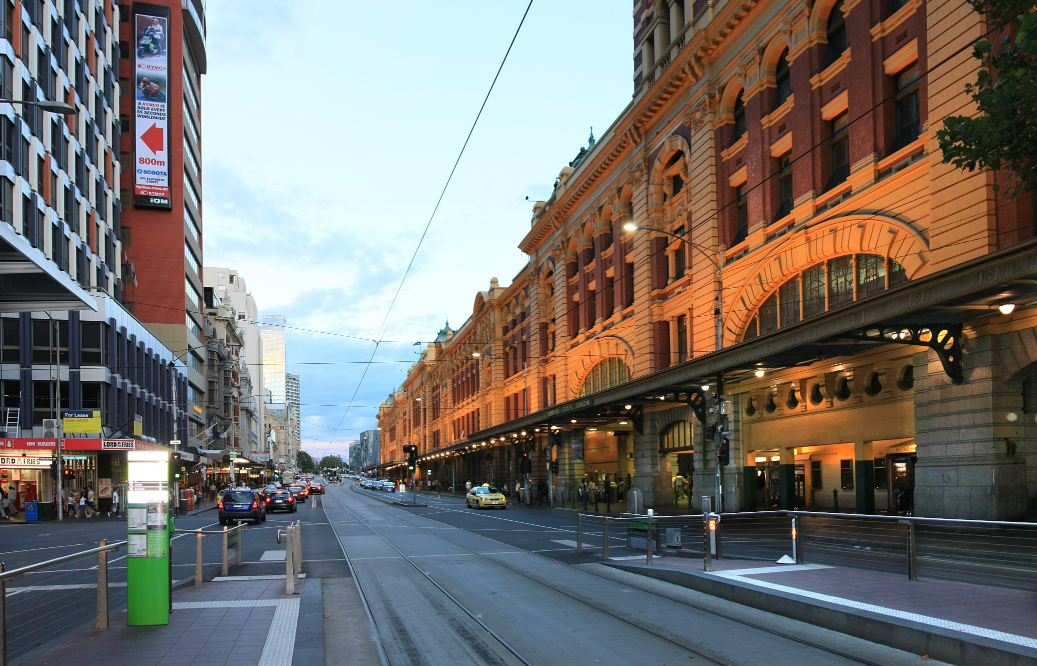 Flinders St train Station Melbourne